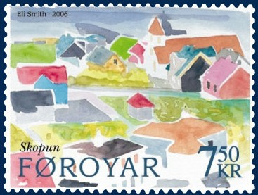 Stamp FO 572 of the Faroe Islands: The Isle of Sandoy: Skopun